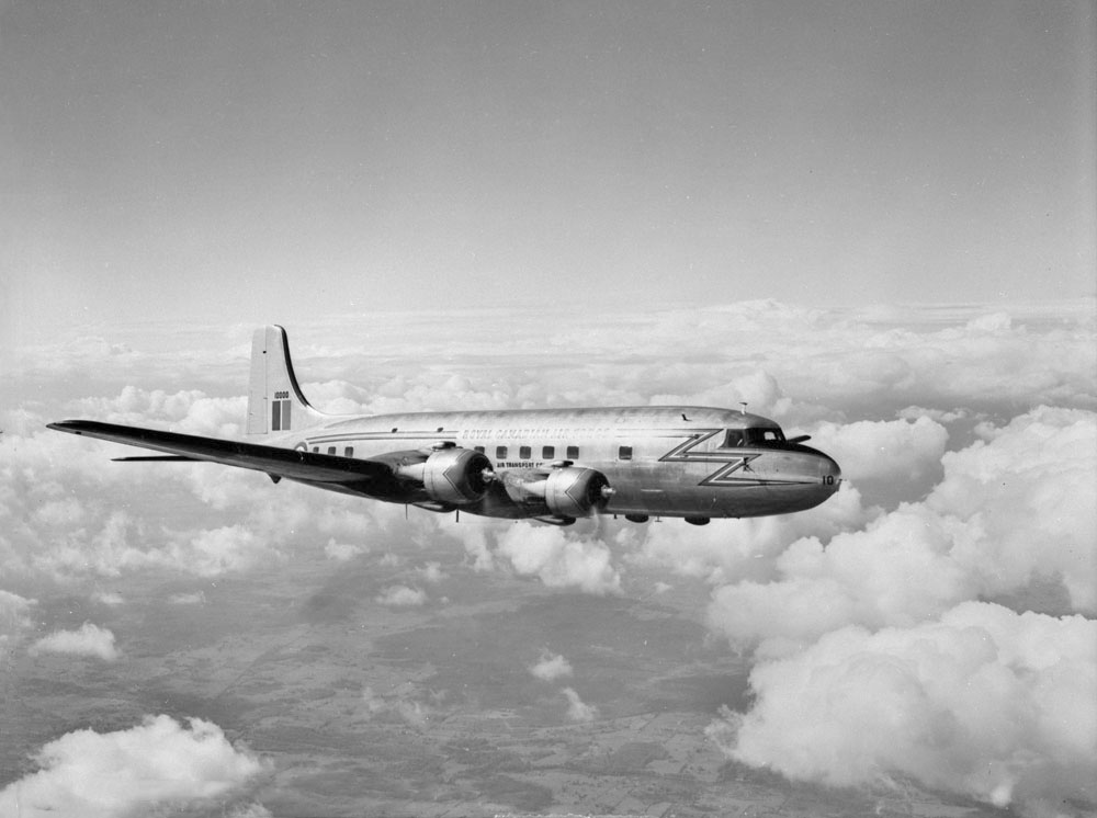 Canadair C-5 aircraft 10000 of the R.C.A.F. near Ottawa, Ont., 25 September 1951. Image has been cleaned up.